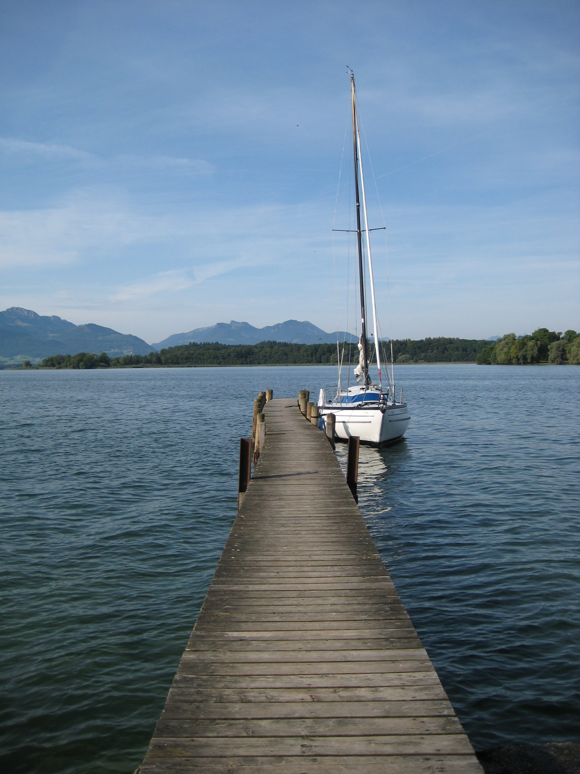 Chiemsee, pier at the southern tip of the Fraueninsel